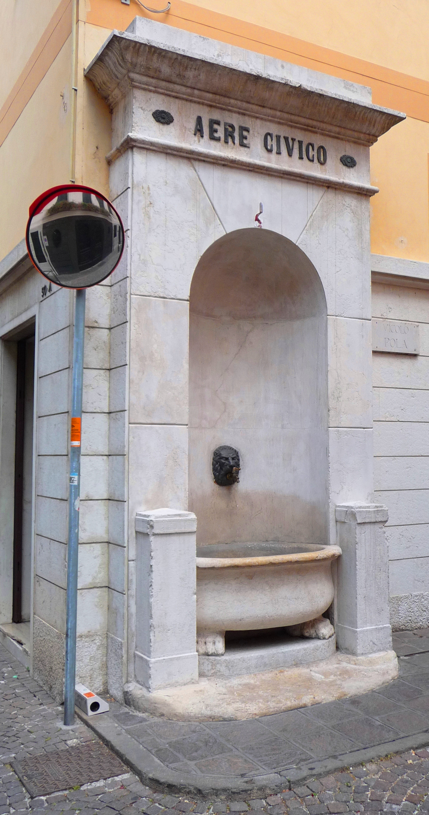 fountain in vicolo Pola, Treviso (IT)